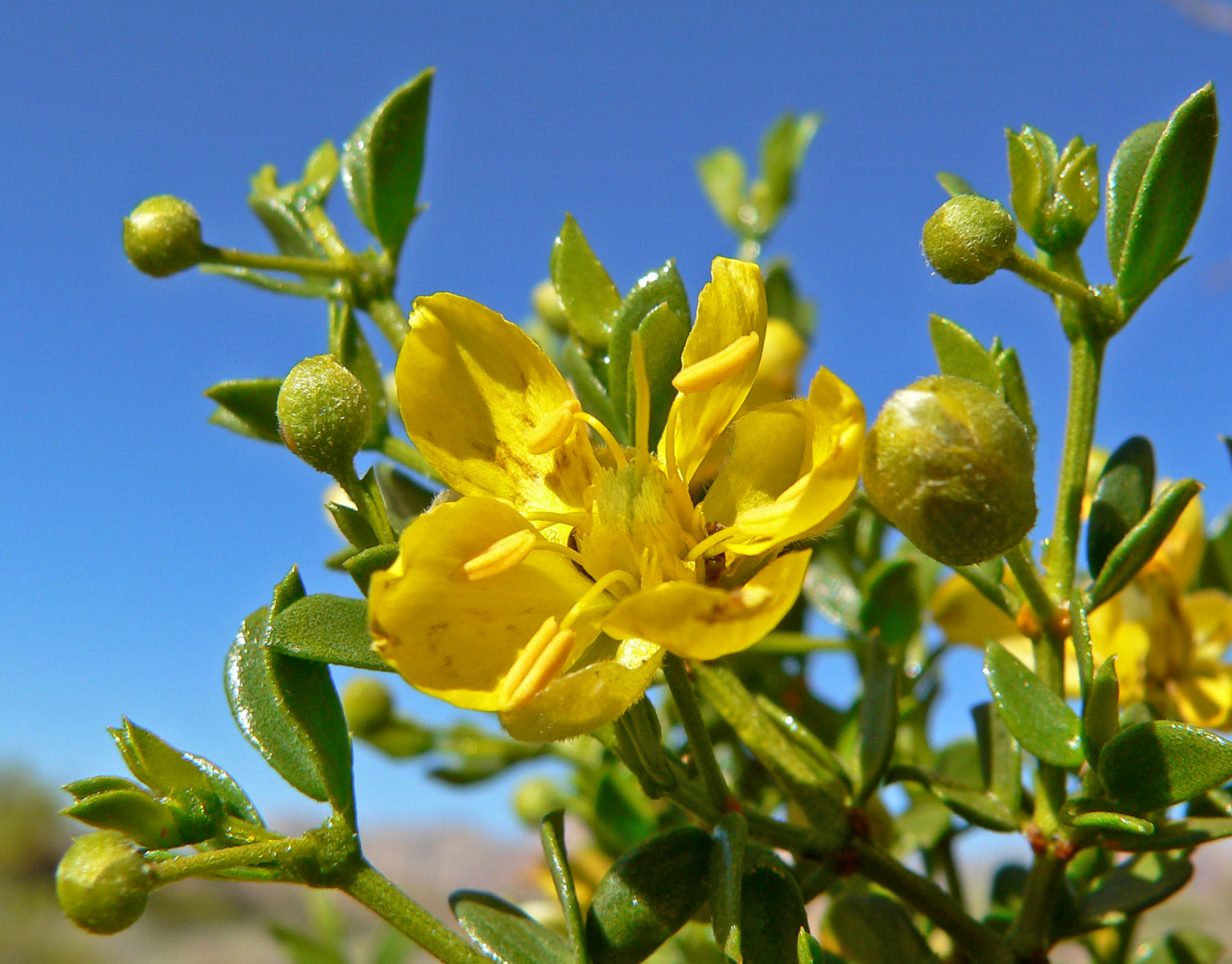 Photo of Larrea tridentata (creosote bush) in Red Rock Canyon, Nevada